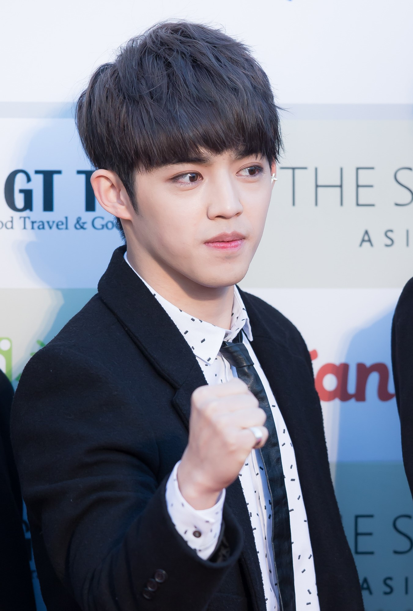 S.Coups on the red carpet of the Gaon Chart K-pop Awards, on February 17, 2016.